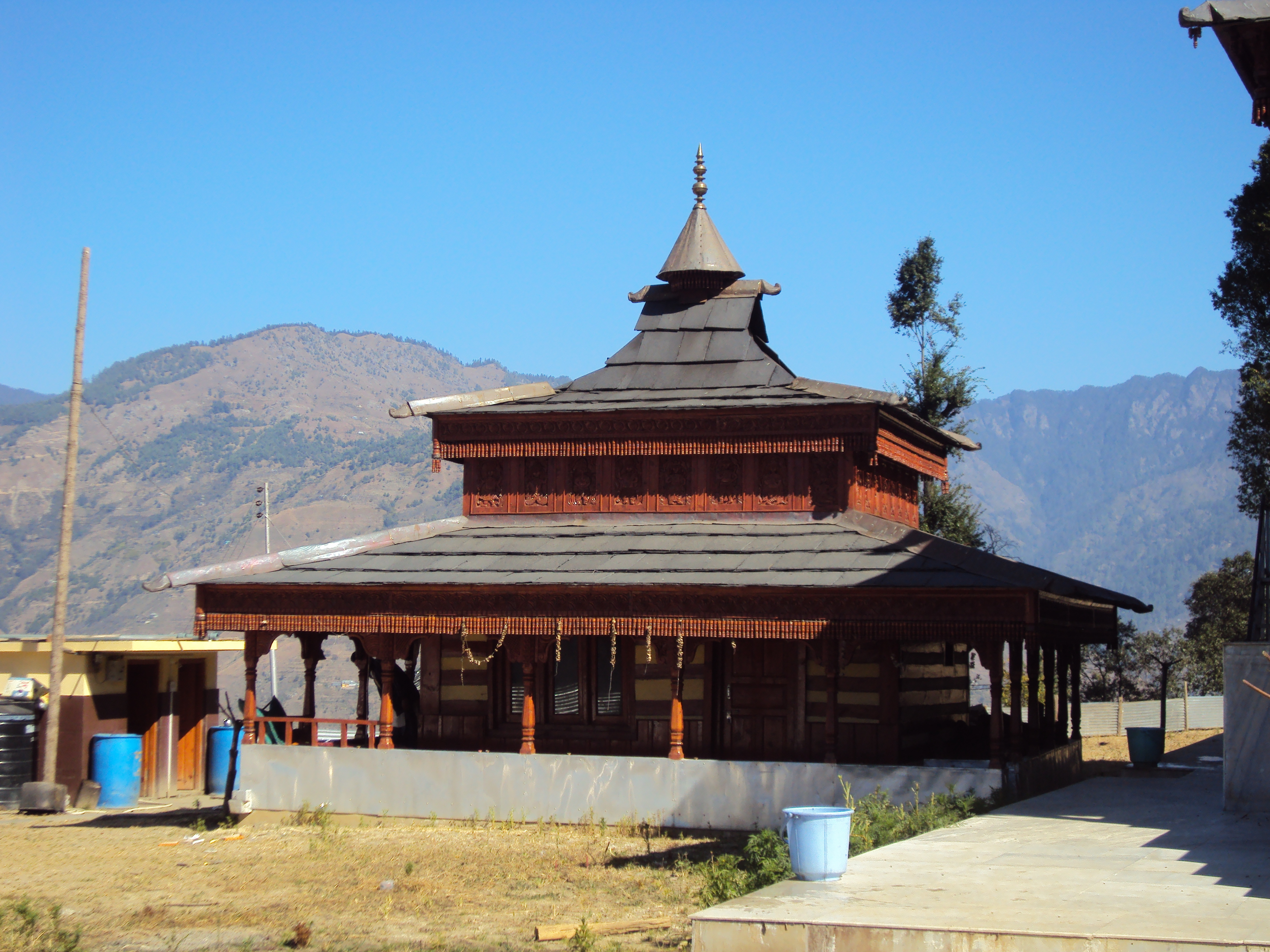 Temple in Bawar region ,Tuini ,chakrata, distt. deharadun,Uttrakhand